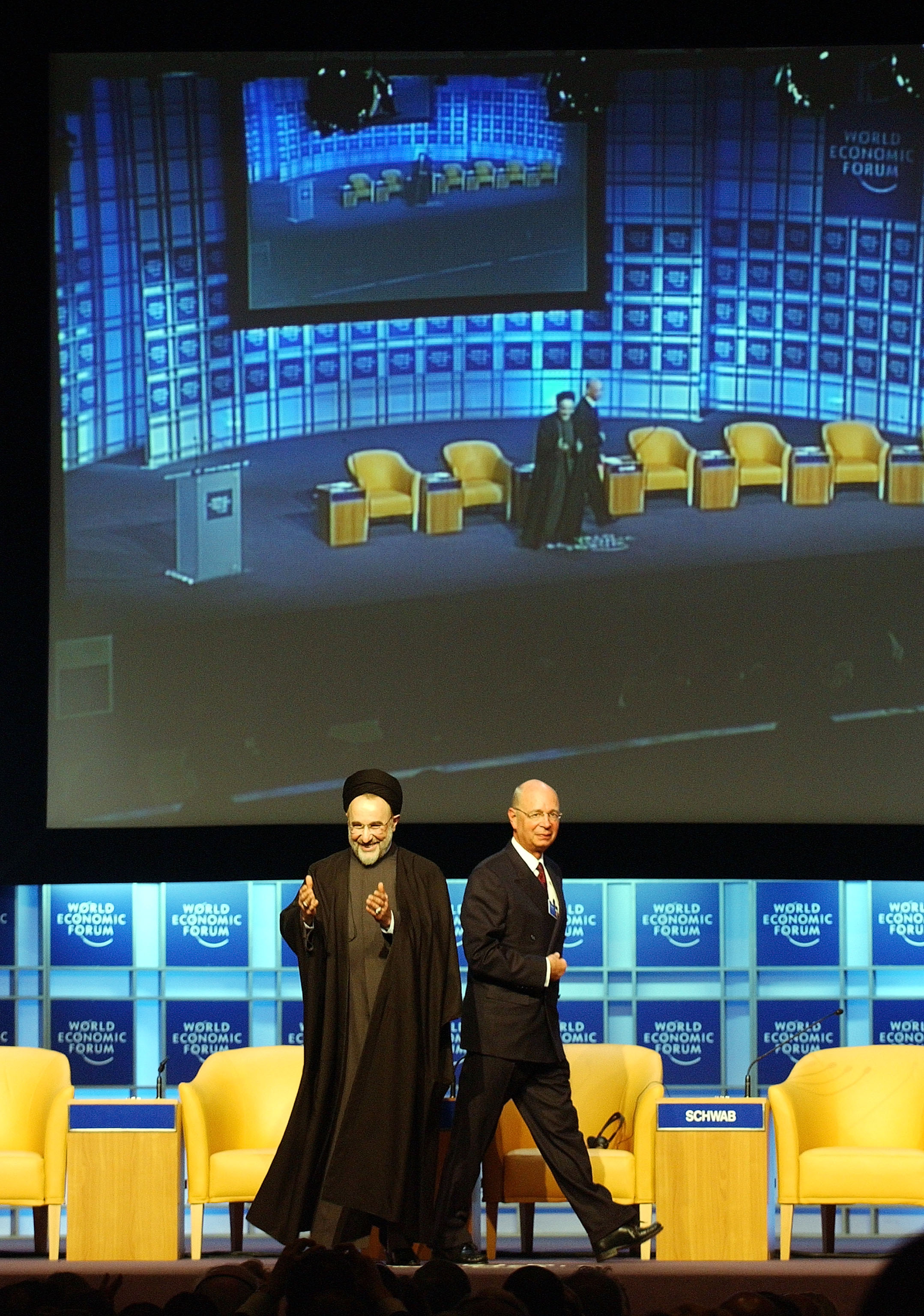 DAVOS/SWITZERLAND, 21JAN04 - H.E. Hojatoleslam Seyed Mohammad Khatami (L), President of the Islamic Republic of Iran, and Klaus Schwab (R), Founder and Executive Chairman, World Economic Forum, during the Welcome to the Annual Meeting 2004 of the World Economic Forum in Davos, Switzerland, January 21, 2004. Copyright World Economic Forum ( by Remy Steinegger